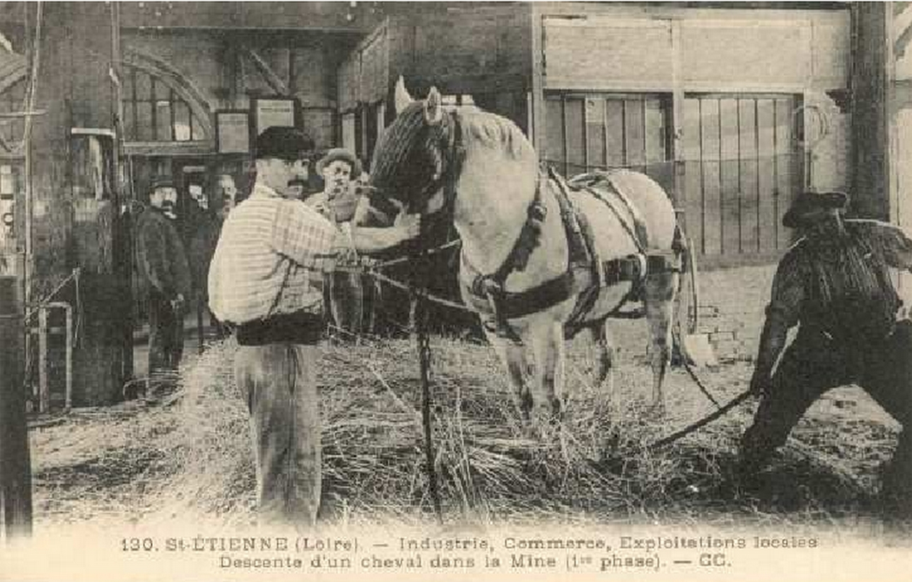 Horse in the mine, France.